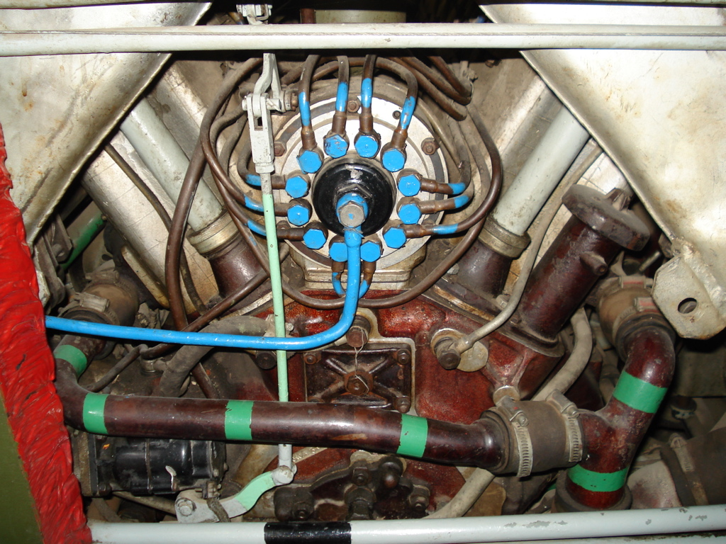 Russian T-54 tank, used by Finland. This model was cut open in for training purposes. Various systems of the tank have been illustrated with different colors. Side view of the engine. Finnish Tank Museum (Panssarimuseo) in Parola.